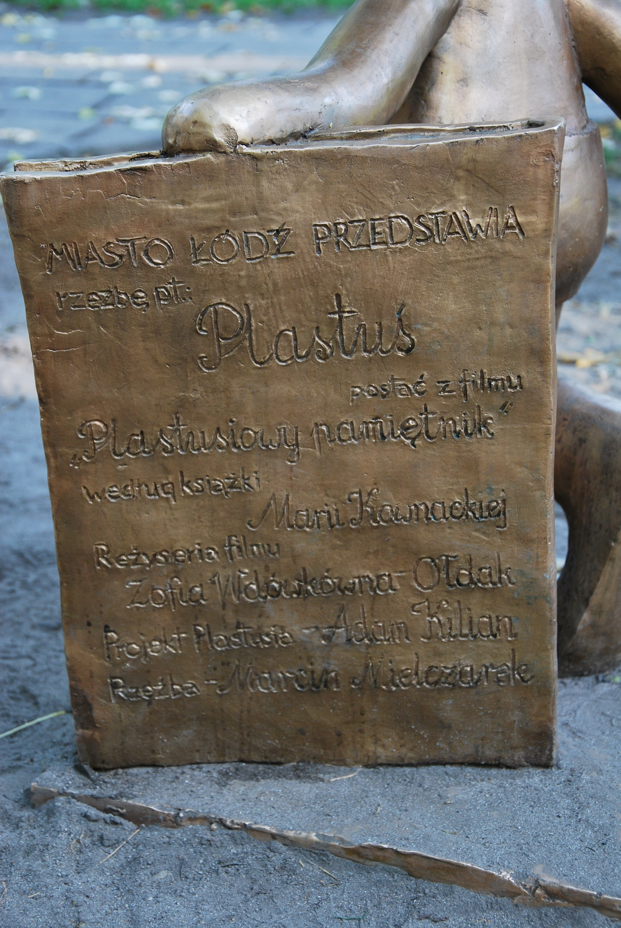 Plastuś sculpture information, Łódź Park Sienkiewicza